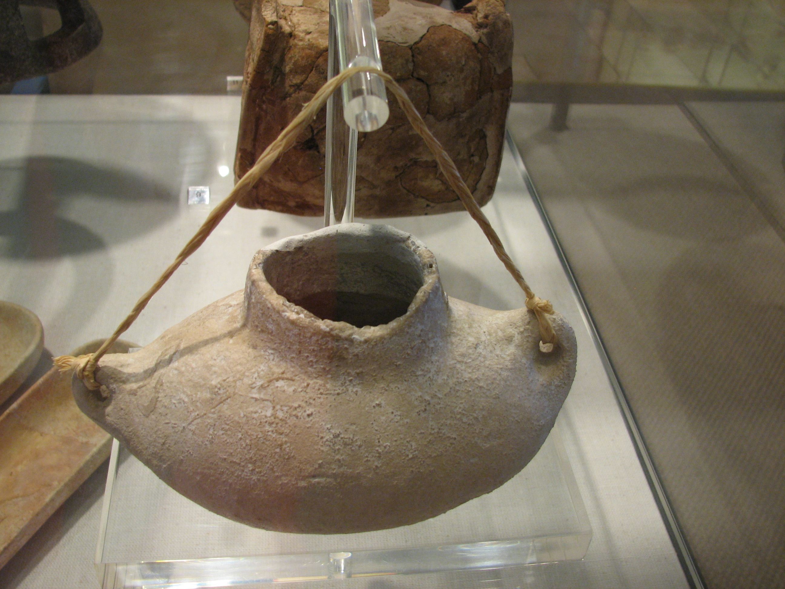 Chalcolithic churn – Beersheba Culture – found in Israel Small